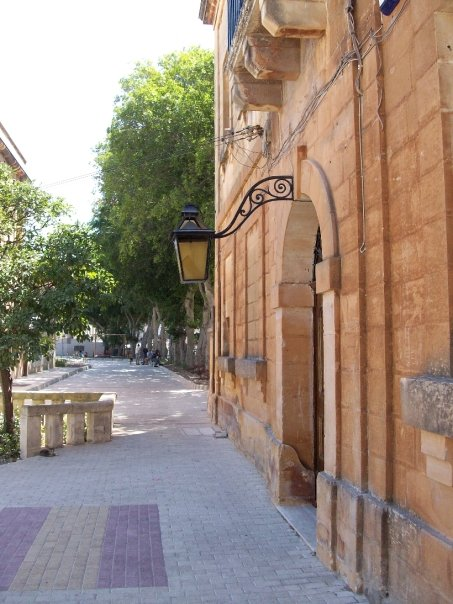 the Birkirkara 'old railway station'